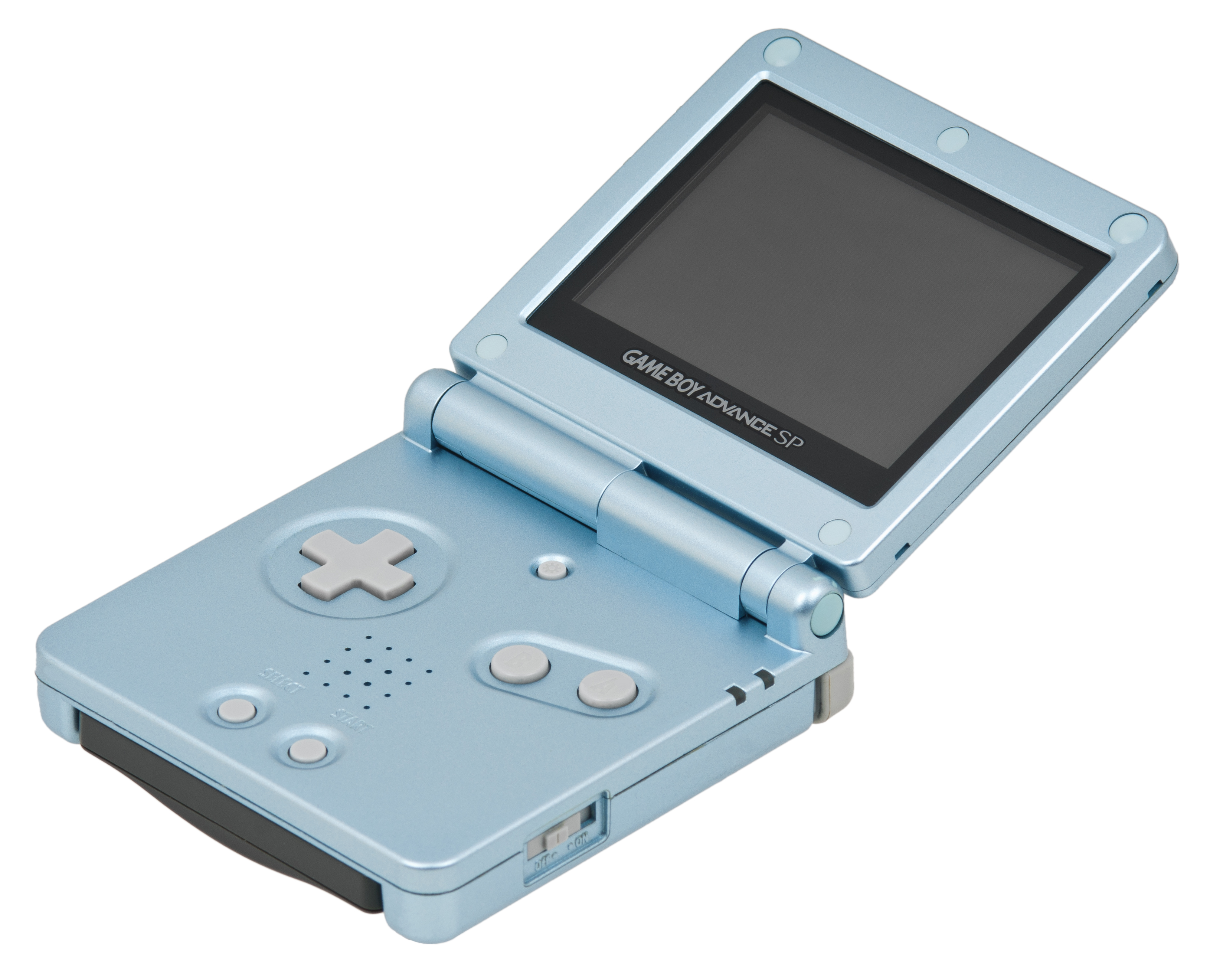 The Game Boy Advance SP, 2nd generation unit with improved back-lit screen. Pearl Blue color.